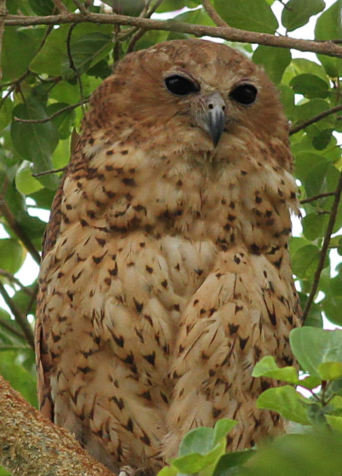 Pel's fishing owl, Scotopelia pel, at uMkhuze Game Reserve, kwaZulu-Natal, South Africa